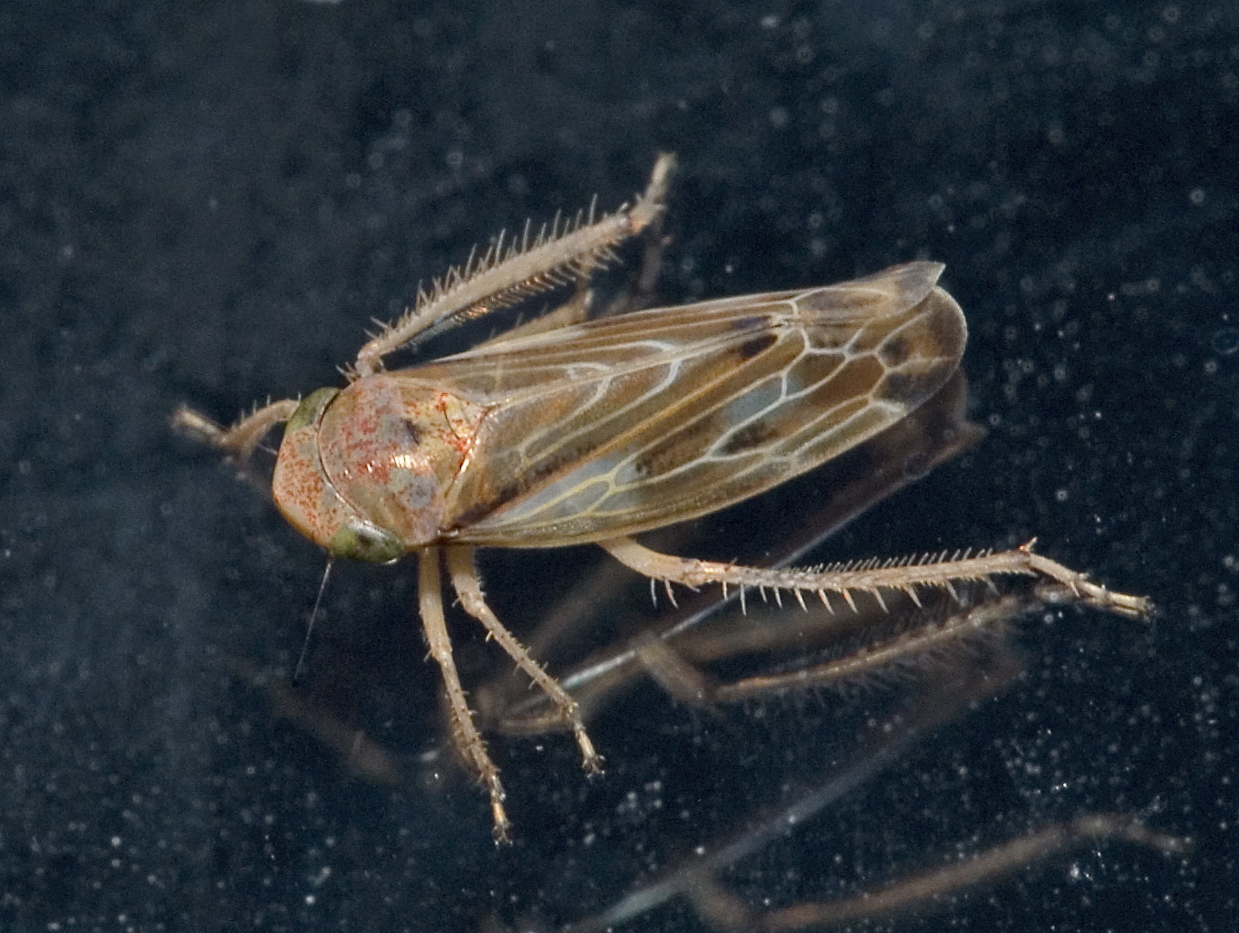 Please report references to kulacgmx.at.